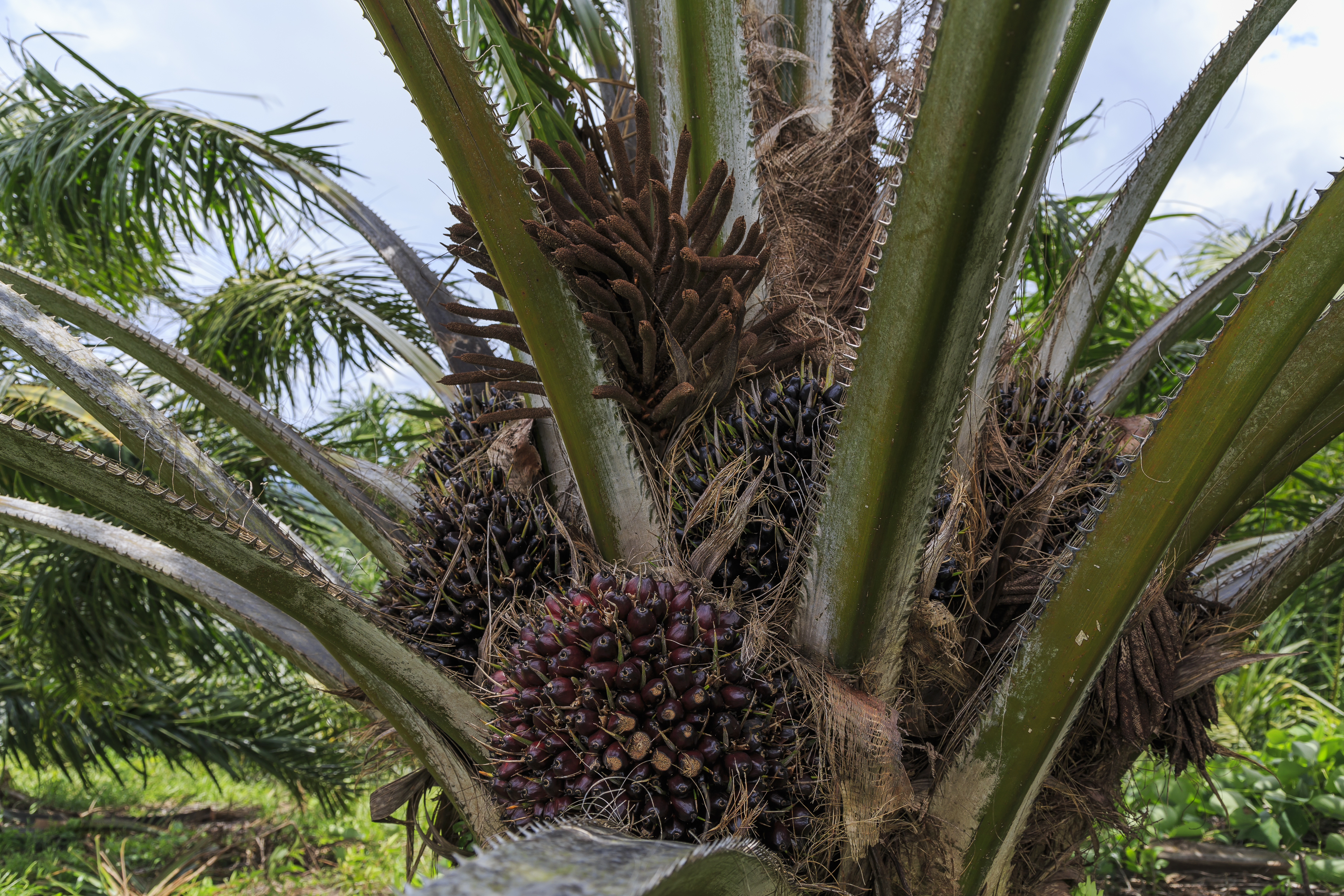 Kimanis, Sabah: Palm oil fruit at Kimanis Estate, an Oil Palm Plantation of SAWIT Kinabalu.